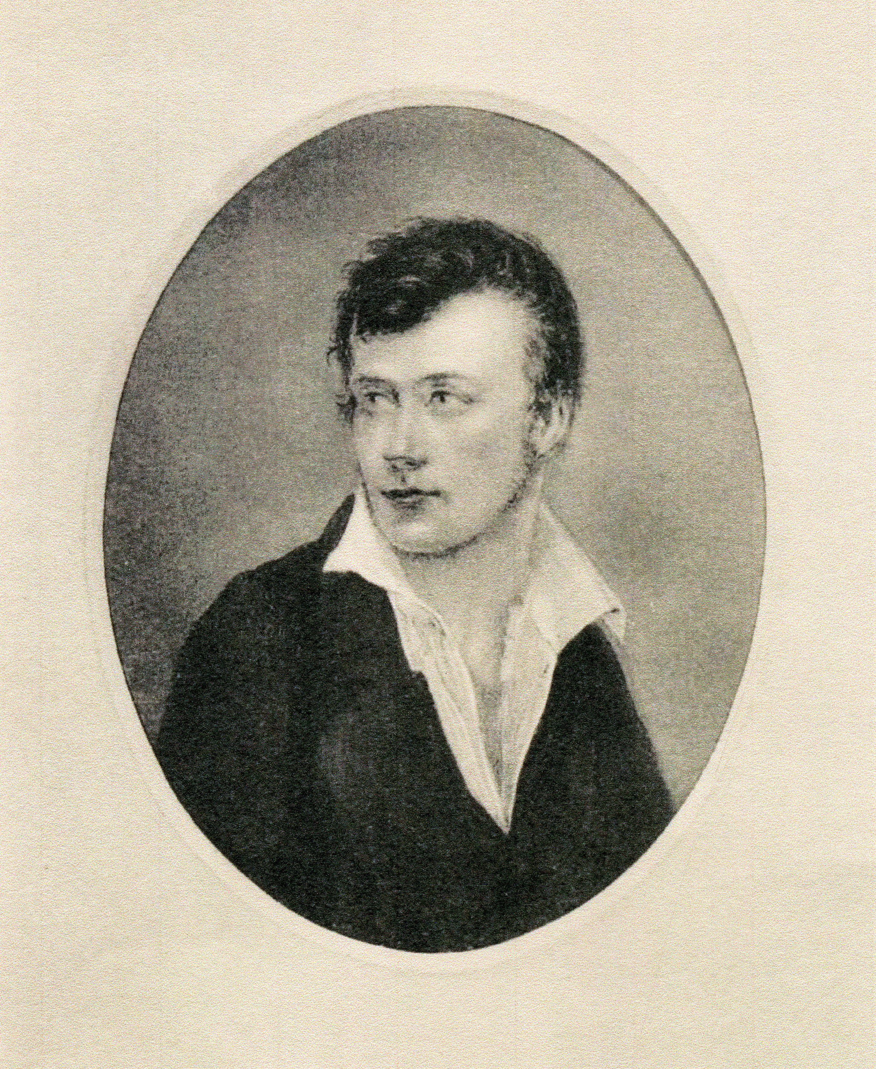 Johan Conrad van Hasselt 1797-1823, naturalist